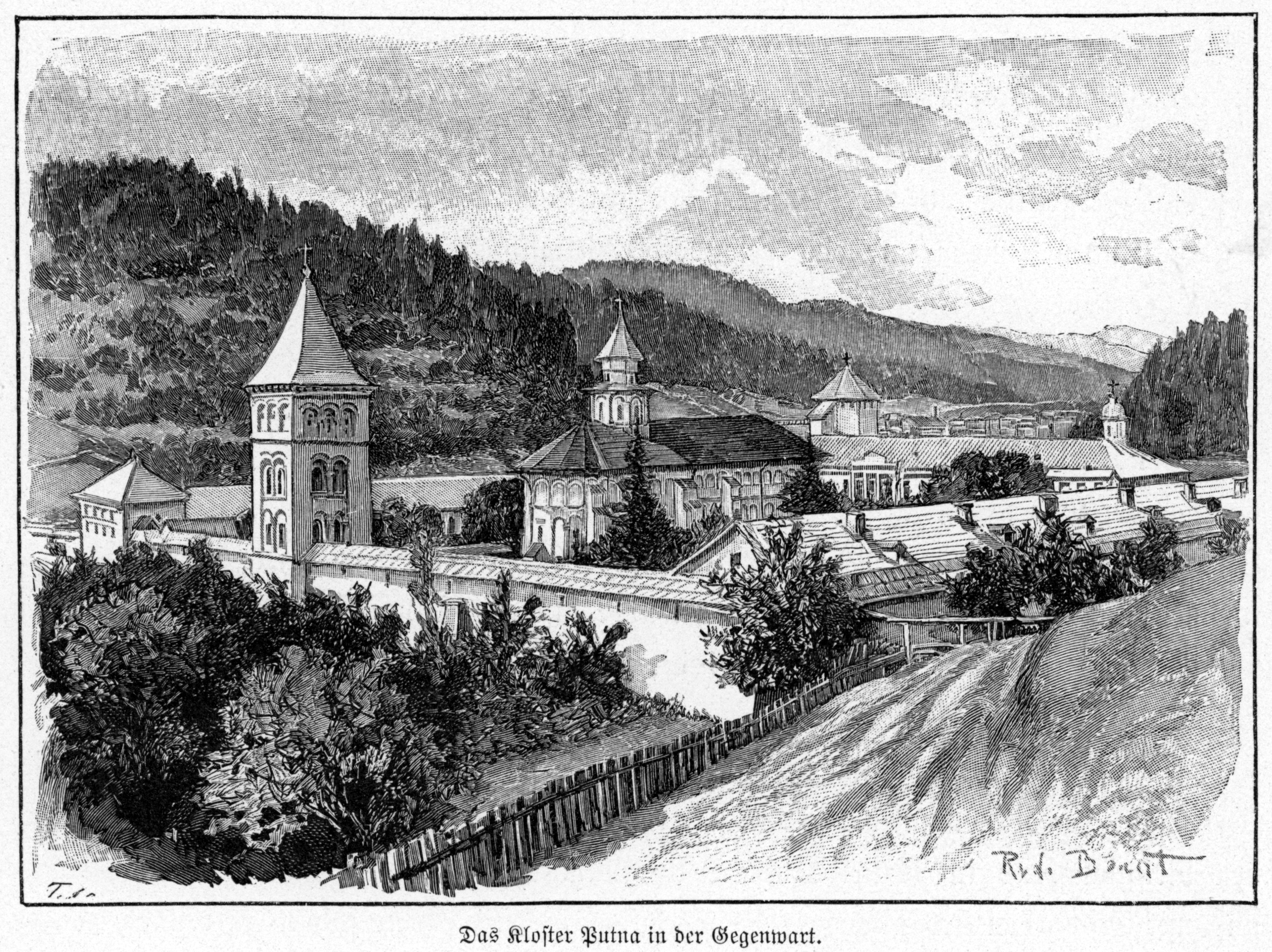 Putna Monastery approx. 1899.